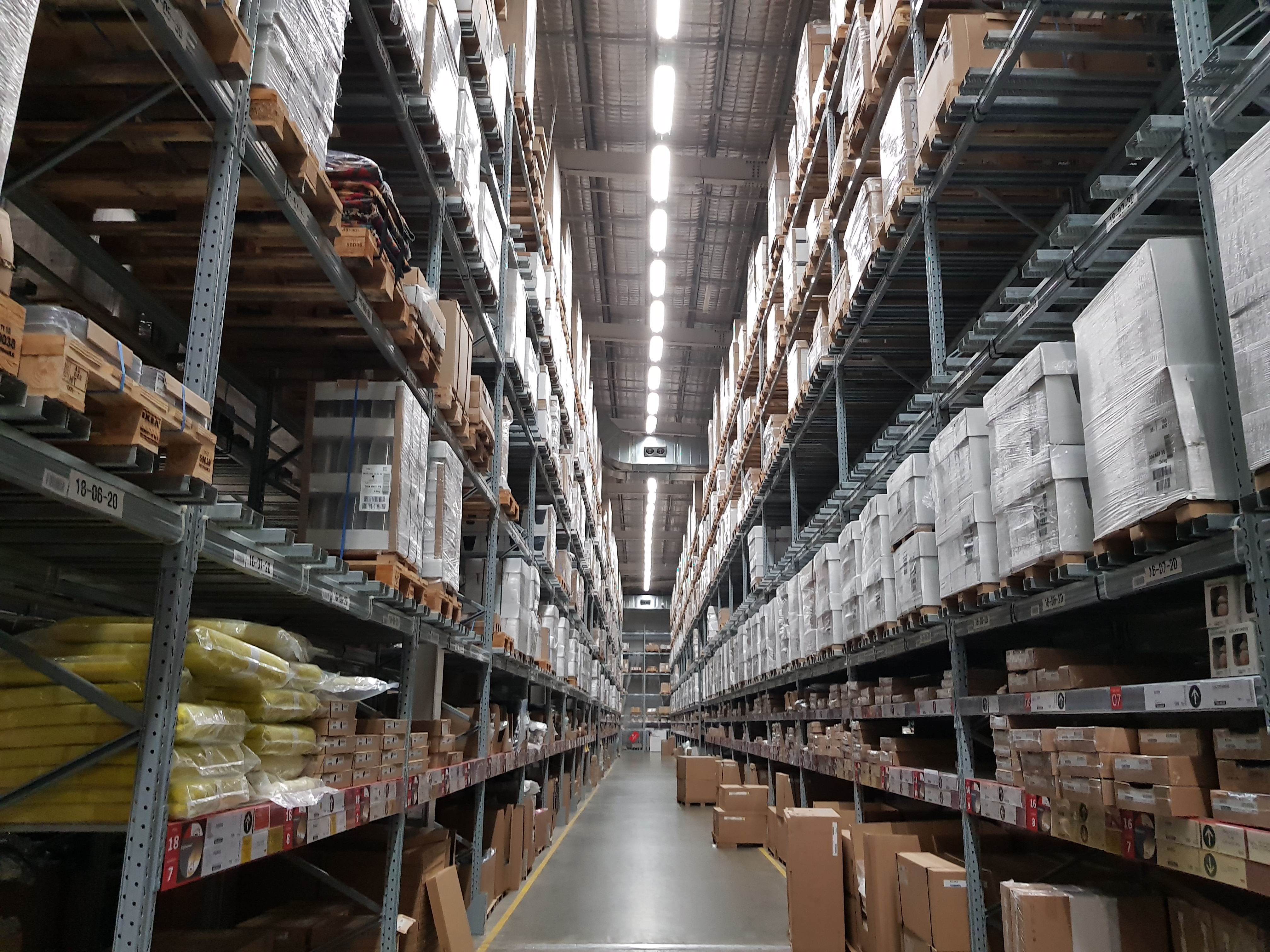 IKEA warehouse